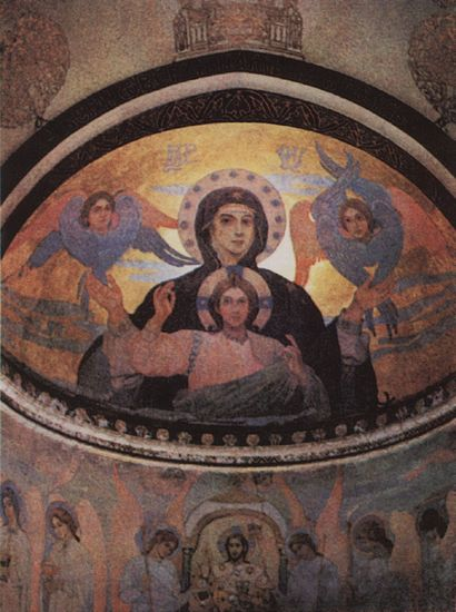 A fresco by M. Nesterov from Akhali Zarzma monastery, Abastumani, Georgia